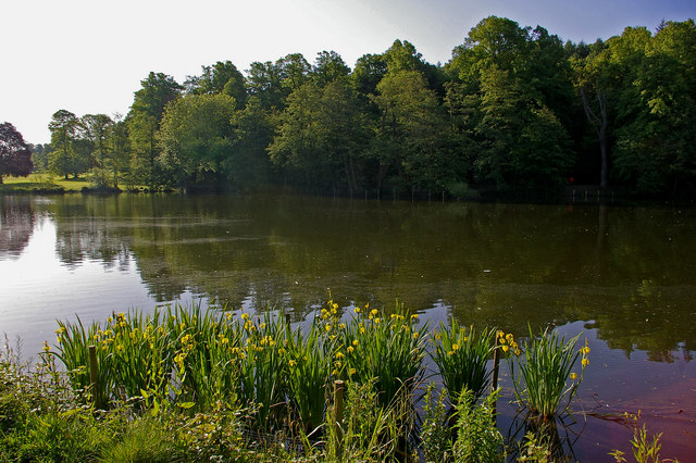 Priory Pond An early morning view of Priory Pond, restored in 2007 as part of the Priory Park restoration project.